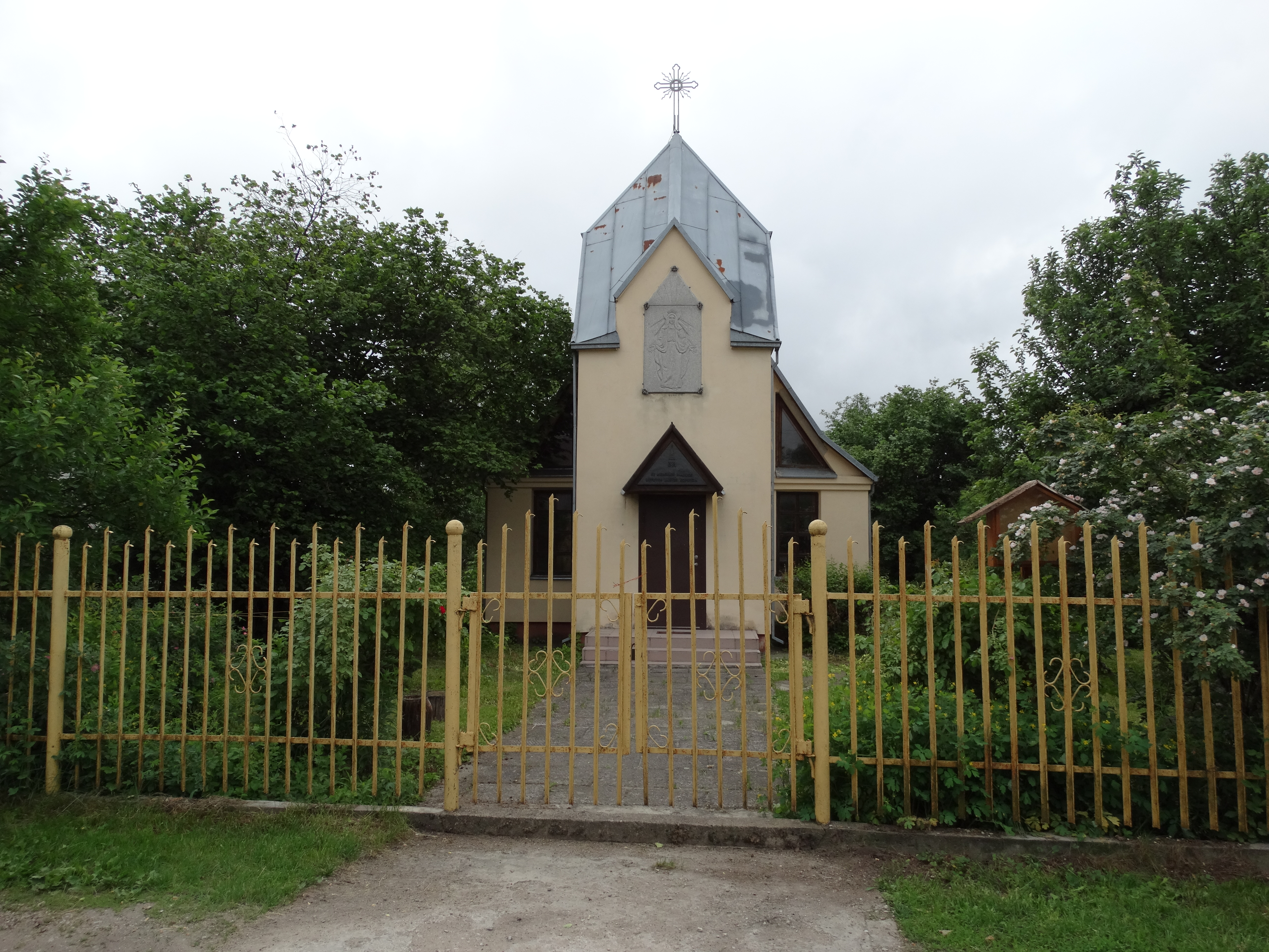 Chapel in Vilijampolė, Kaunas, Lithuania